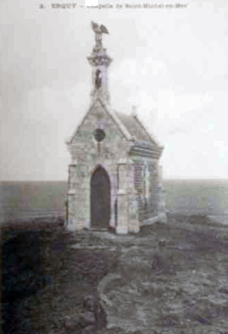 1889 postcard of Chapelle de Saint-Michel (Saint Michael's Chapel) on Îlot Saint-Michel, Brittany.